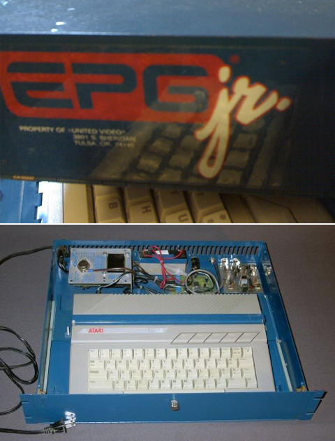 Picture of EPG Jr. featuring Atari 130XE, used for the Electronic Program Guide (EPG) service of United Video on cable TV systems throughout the United States and Canada.